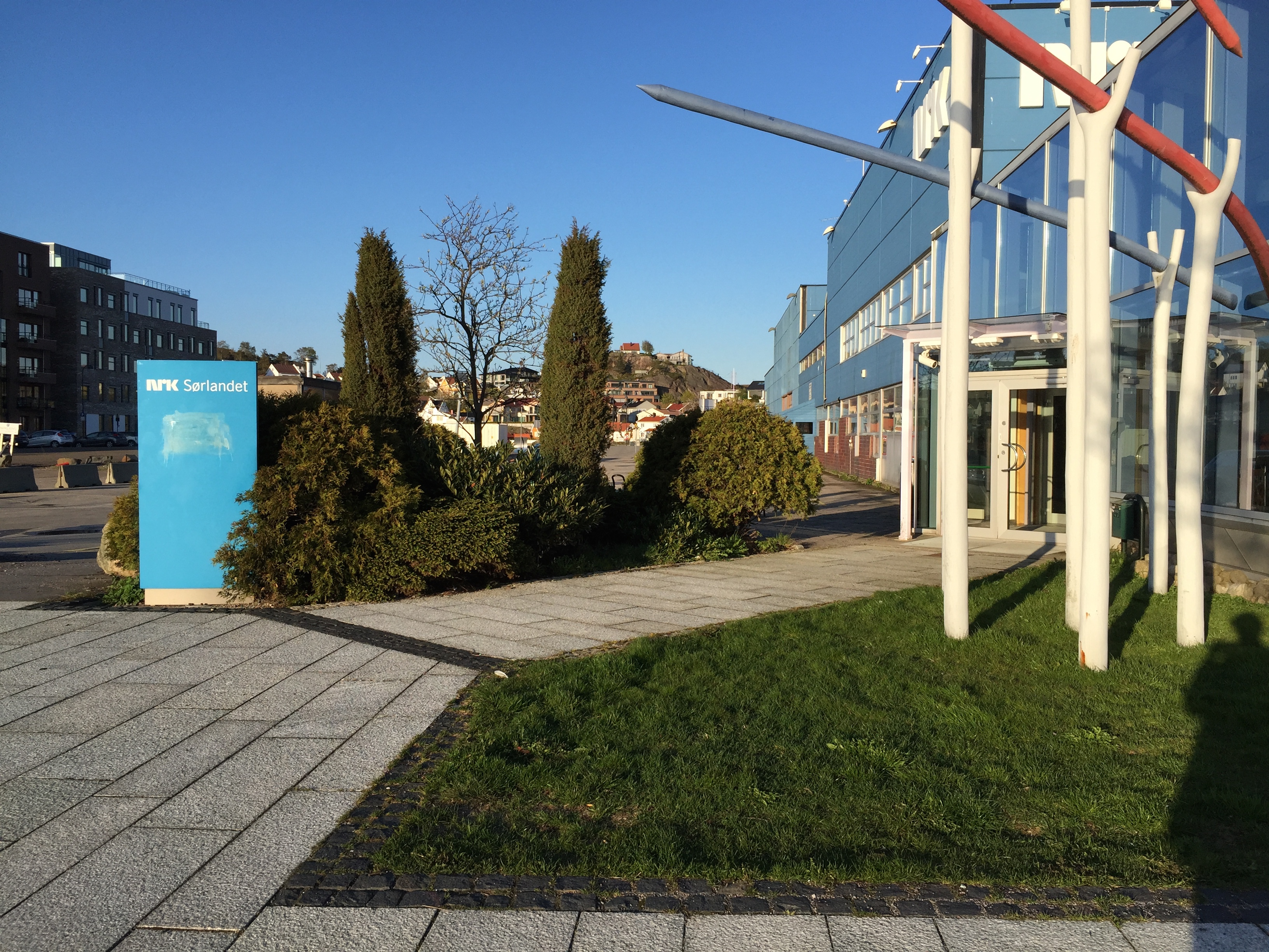 NRK Sørlandet, Kristiansand